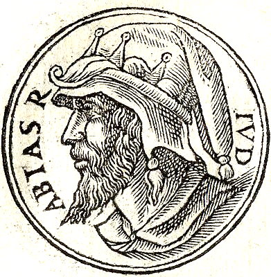 Abijam was the fourth king of the House of David and the second of the Kingdom of Judah.